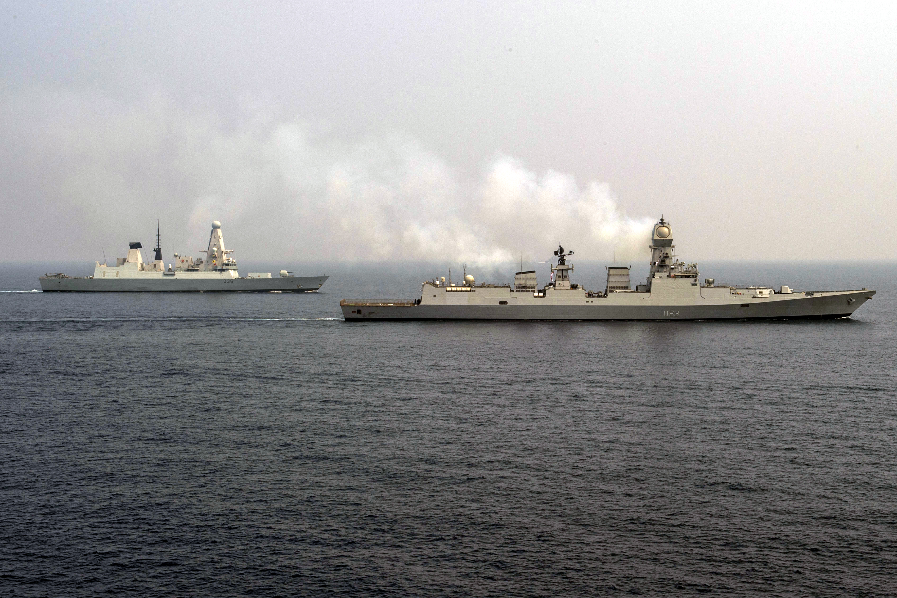 160209-N-ZZ786-022 BAY OF BENGAL (Feb. 9, 2016) The Indian Navy destroyer INS Kolkata (D63) and the British Navy destroyer HMS Defender (D36) steam alongside the Ticonderoga-class guided-missile cruiser USS Antietam (CG 54) during an exercise as part of India’s International Fleet Review (IFR) 2016. IFR 2016 is an international military exercise hosted by the Indian Navy to help enhance mutual trust and confidence with navies from around the world. Antietam, forward deployed to Yokosuka, Japan, is on patrol in the 7th Fleet area of operations in support of security and stability in the Indo-Asia-Pacific. (U.S. Navy photo by Mass Communication Specialist 3rd Class David Flewellyn/Released)